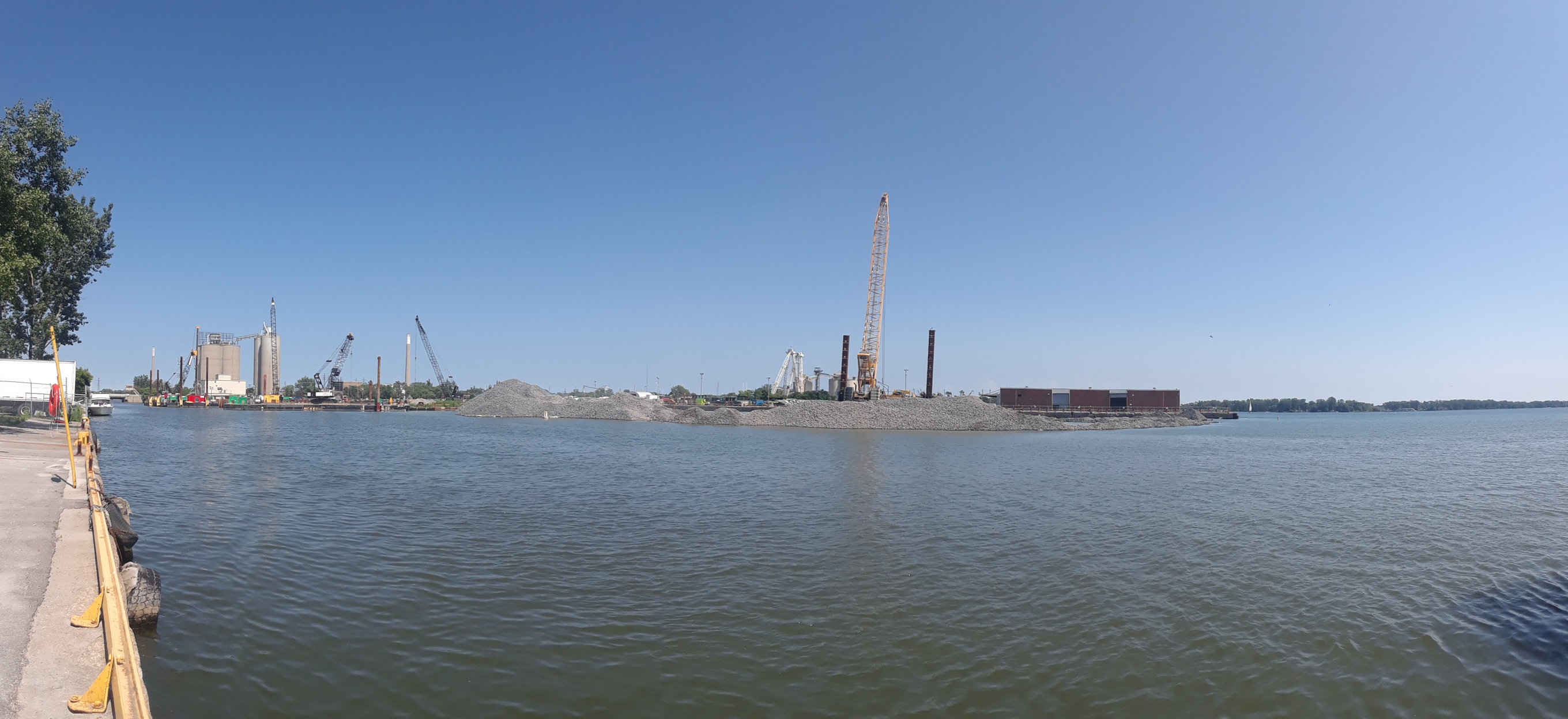 Filling in part of the mouth of the Keating Channel is part of naturalizing the Mouth of Don River (Ontario) and the creation of Villiers Island.